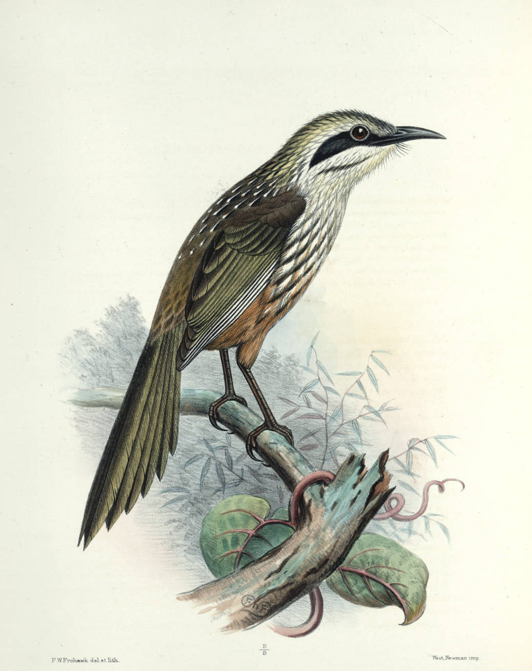 Kioea (Chaetoptila angustipluma) artwork by Frederick William Frohawk from 'Aves Hawaiiensis : The Birds of the Sandwich Islands' by Scott Barchard Wilson from the years 1890 to 1899 Photo: by courtesy of Barbara Ward Grubb / Triptych Collections